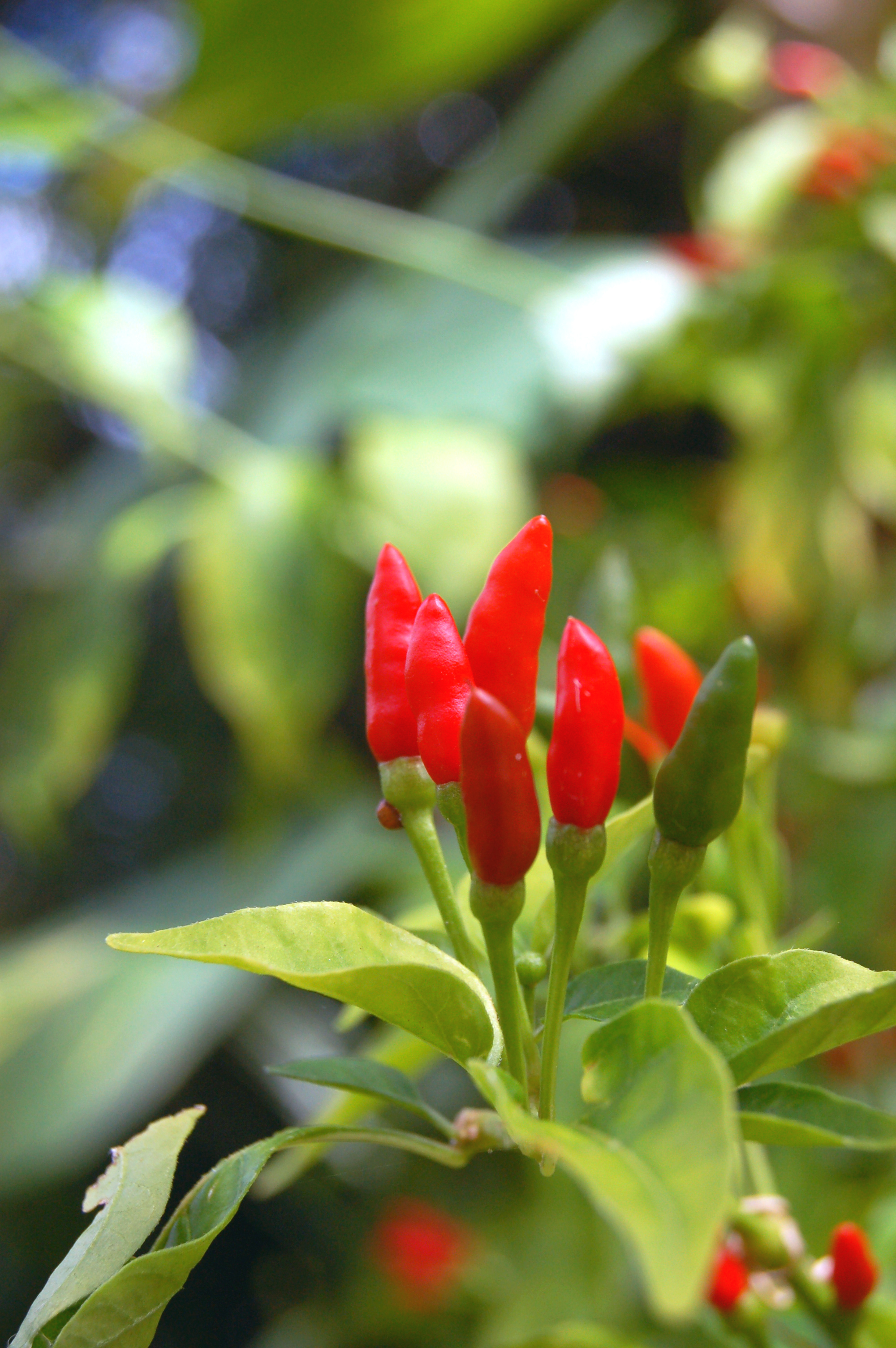 Thai hot peppers. Author: P. Miller